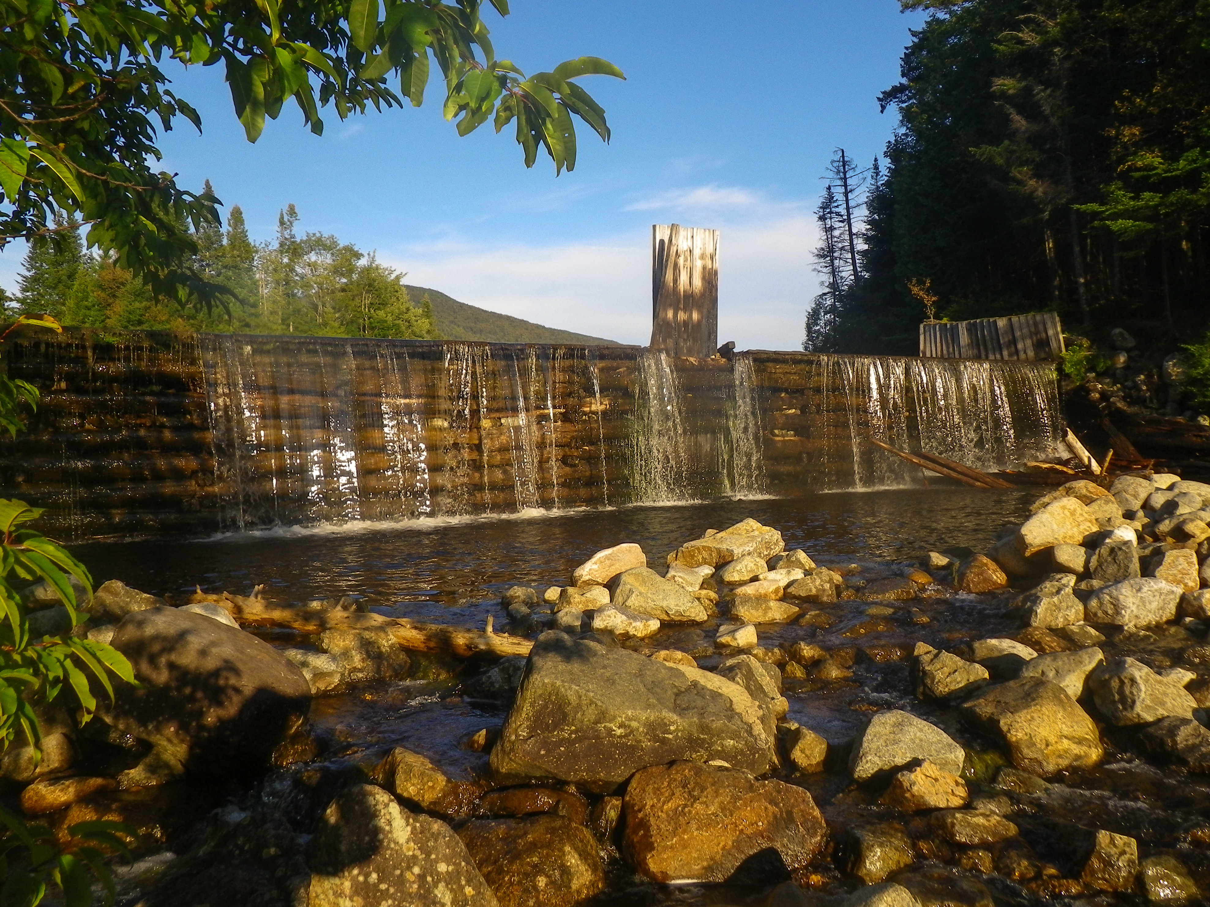 The dam along the Cold River that created the man made pond, Duck Hole. This dam was destroyed during Hurricane Irene, and Duck Hole has subsequently become marshland.